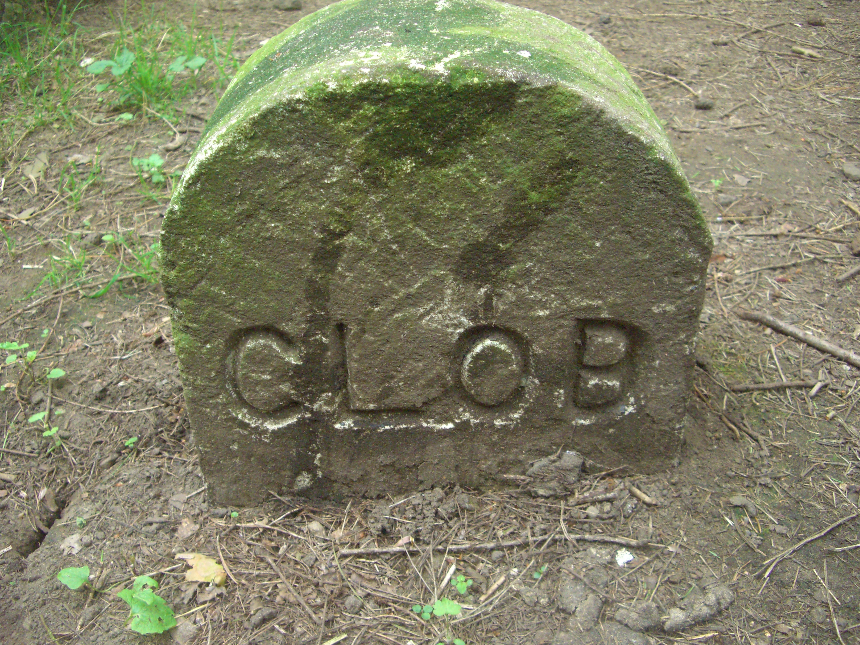 The CLOB stone at Dale Dike Reservoir in Sheffield, England marks the original line of the dam wall which was breached in the Great Sheffield Flood of 1864. The dam was rebuilt 600 metres further up the valley in 1875.